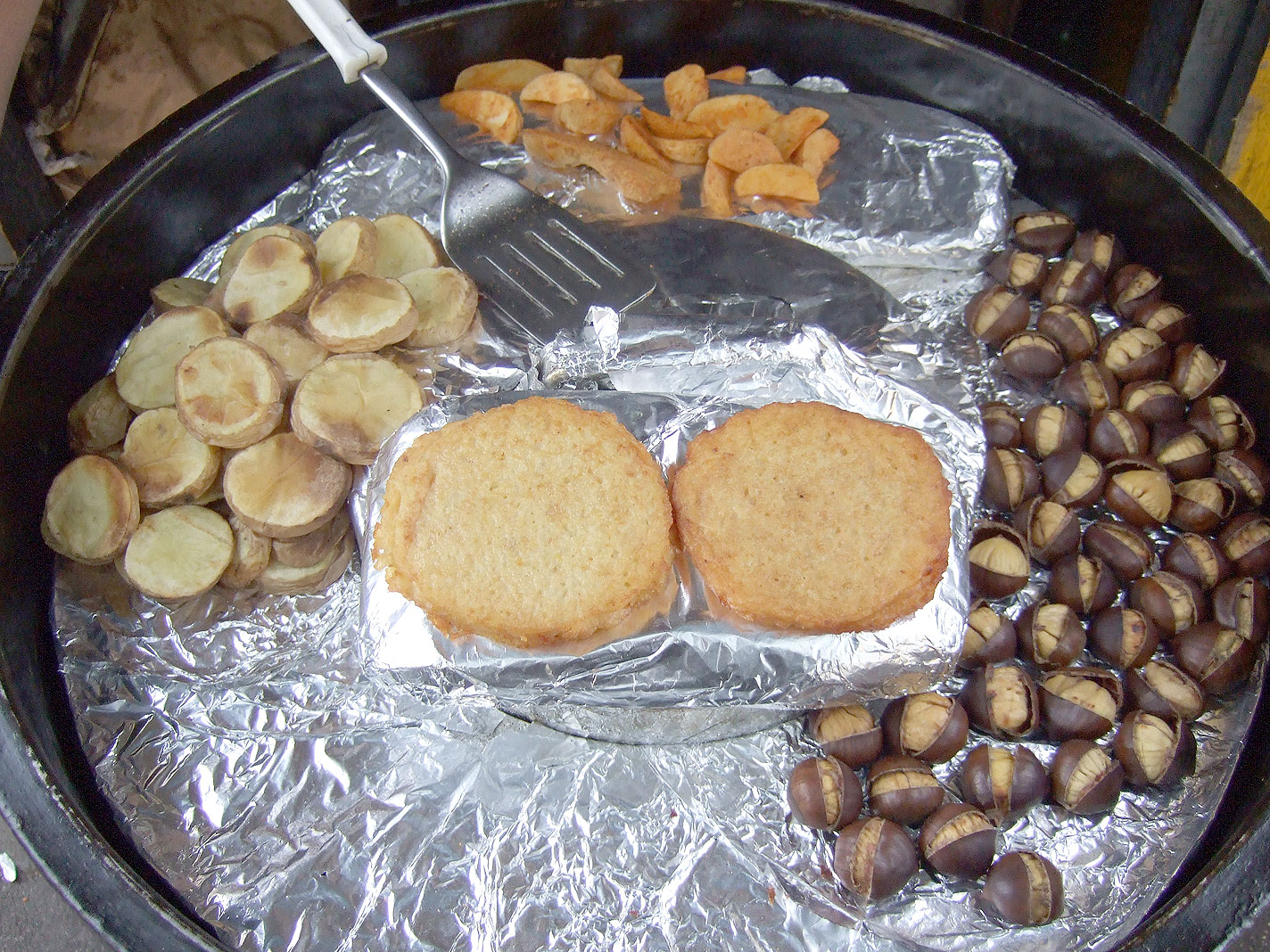 Ofen eines Maronibraters in Wien, in der Mitte Kartoffelpuffer, von links nach rechts im Uhrzeigersinn: Braterdäpfel, Potato Wedges und heiße Maroni (Edelkastanien Castanea sativa);Oven of a "Maronibrater" in Vienna, potato pancakes in the middle, from left to right, clockwise: home fries, potato wedges and hot sweet chestnuts (Castanea sativa)